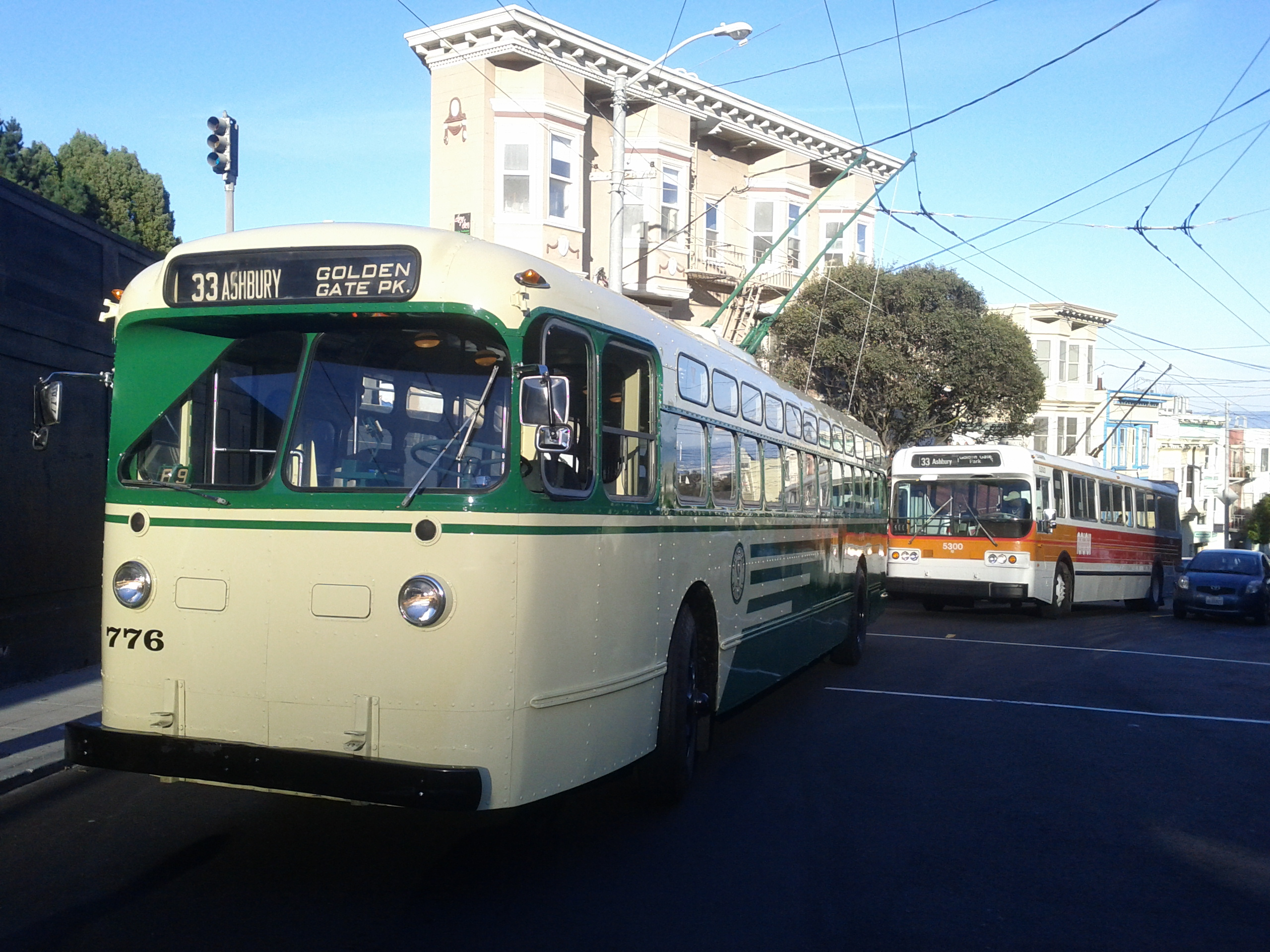 Preserved San Francisco Muni Marmon-Herrington trolley bus 776 at 18th and Danvers, with preserved Flyer E800 trolleybus 5300 behind it.